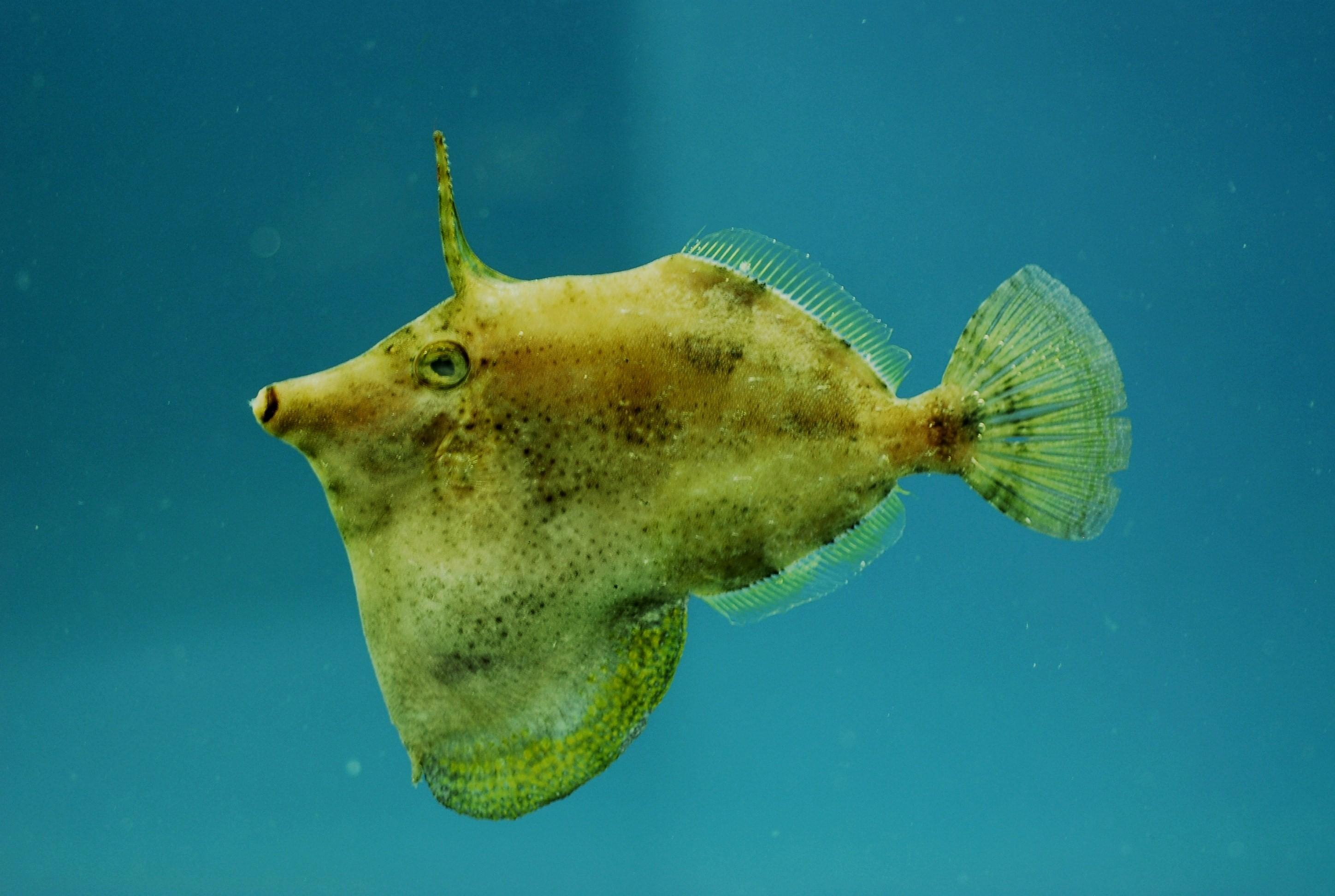 Fringed filefish (Monacanthus ciliatus). Gulf of Mexico.